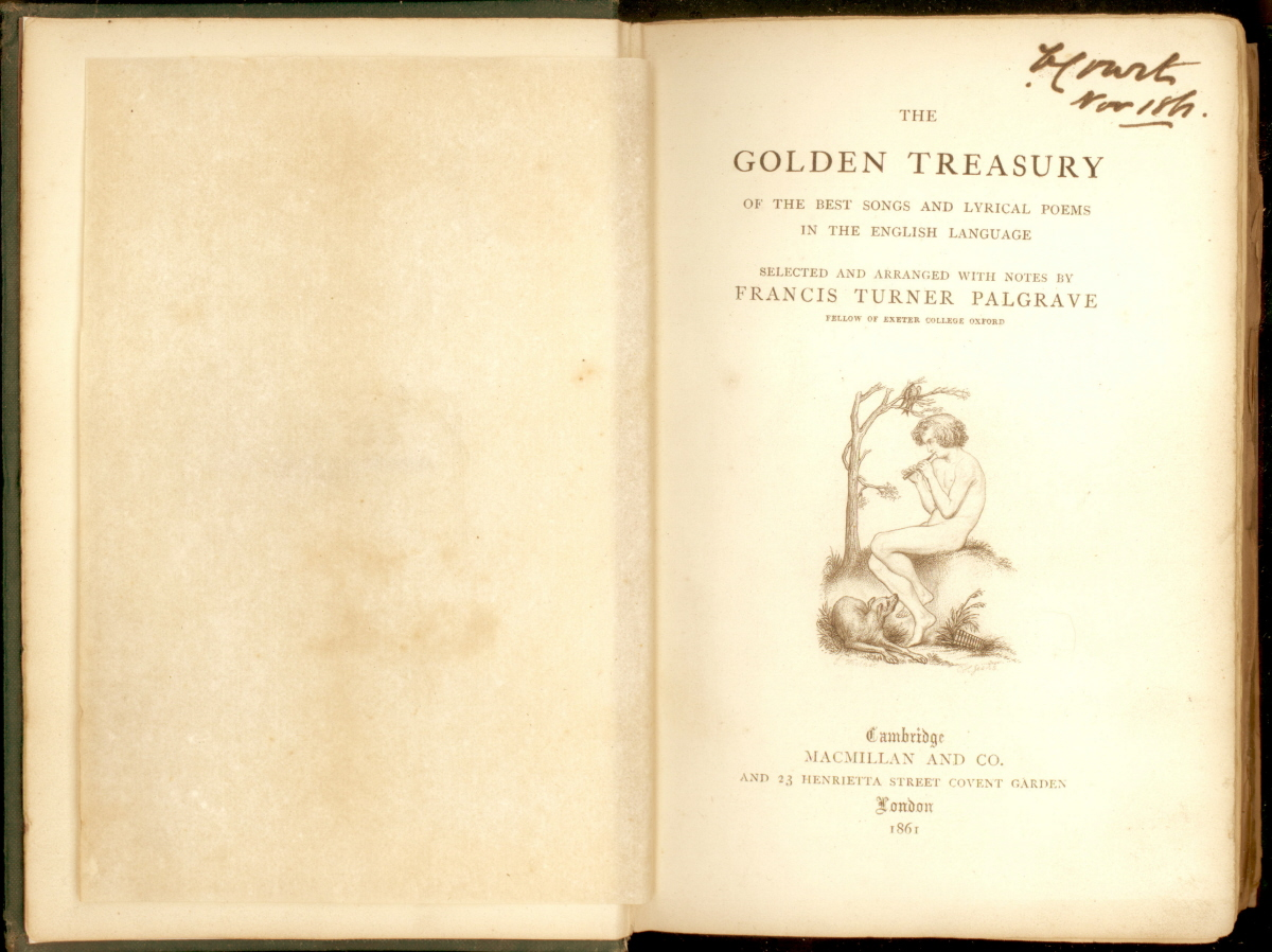 Title page of 1861 first edition (second issue) of Palgrave's Golden Treasury